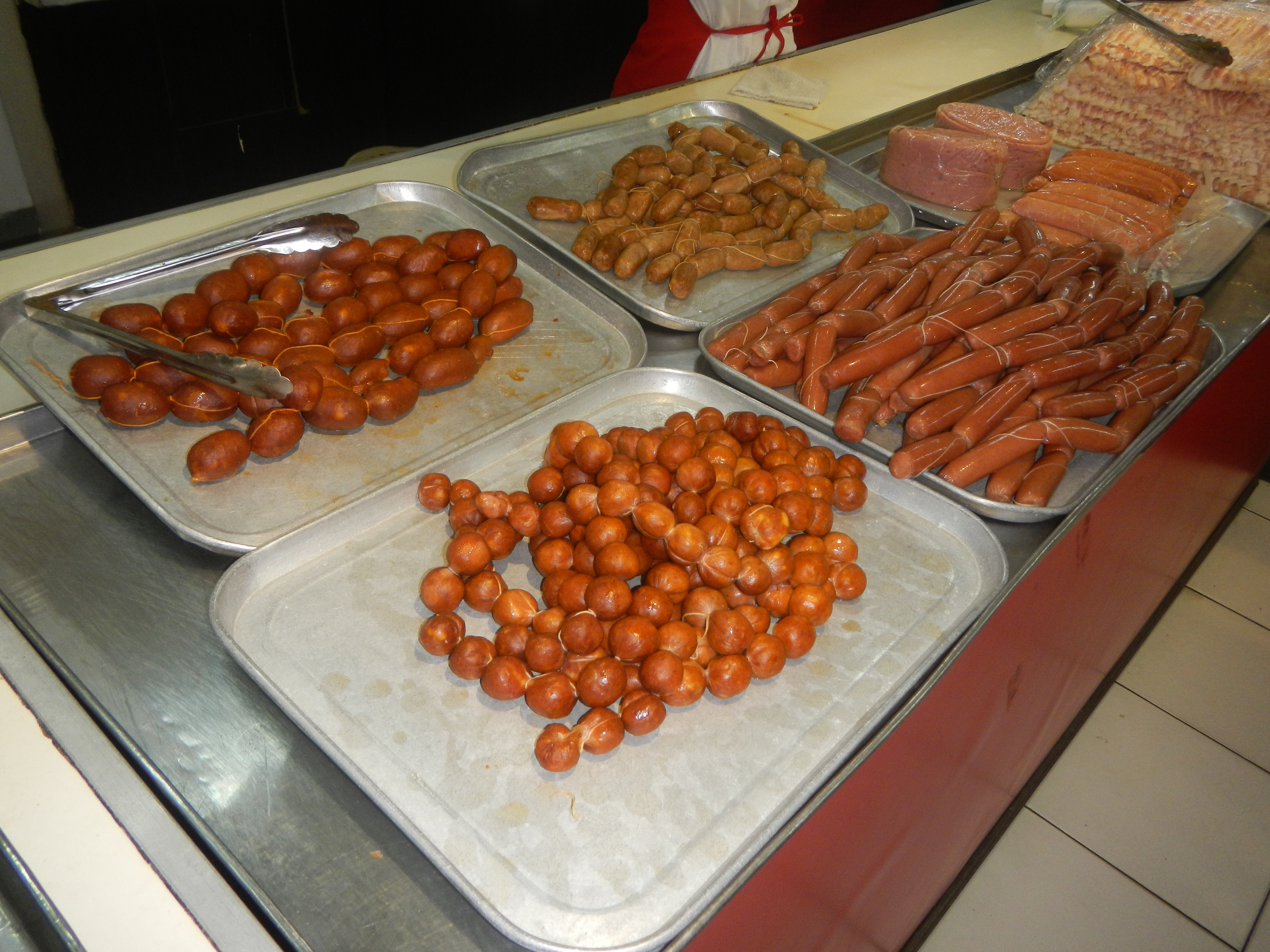 Lacson Avenue corner Fajardo Street corner Loyola Street along Sampaloc, Manila, and Quiapo, Manila from G. Tuazon Street located in the List of barangays of Metro Manila, Barangays 398, Zone, 41, 419, Zone 43, 430, 437, Zone 44, 534, 535, 536, 541, Zone 53, 556, 565, Zone 55, 573, 574, 575, 576, Zone Zone 56, District IV, District IV, Sampaloc, Manila (Note: Judge Florentino Floro, the owner, to repeat, Donor Florentino Floro of all these photos hereby donate gratuitously, freely and unconditionally all these photos to and for Wikimedia Commons, exclusively, for public use of the public domain, and again without any condition whatsoever).